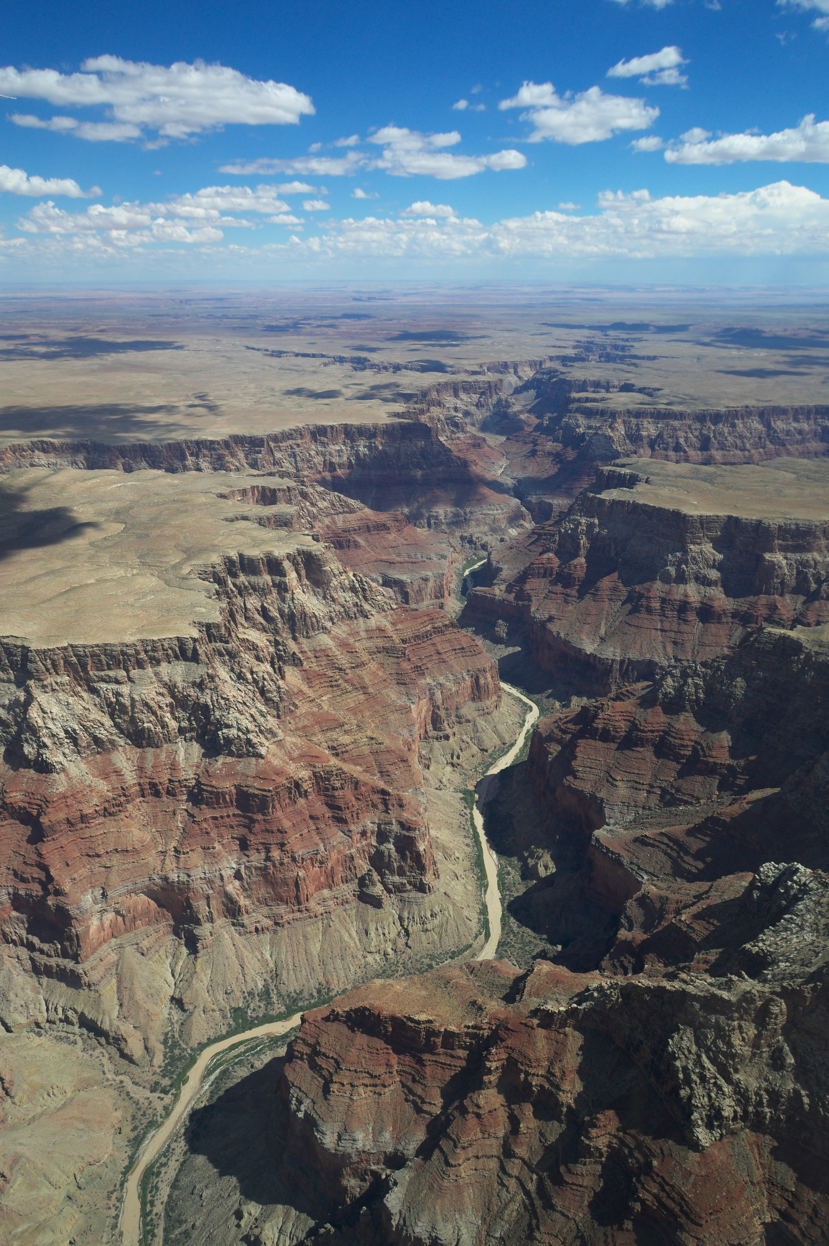 An aerial view over the north part of the Grand Canyon.